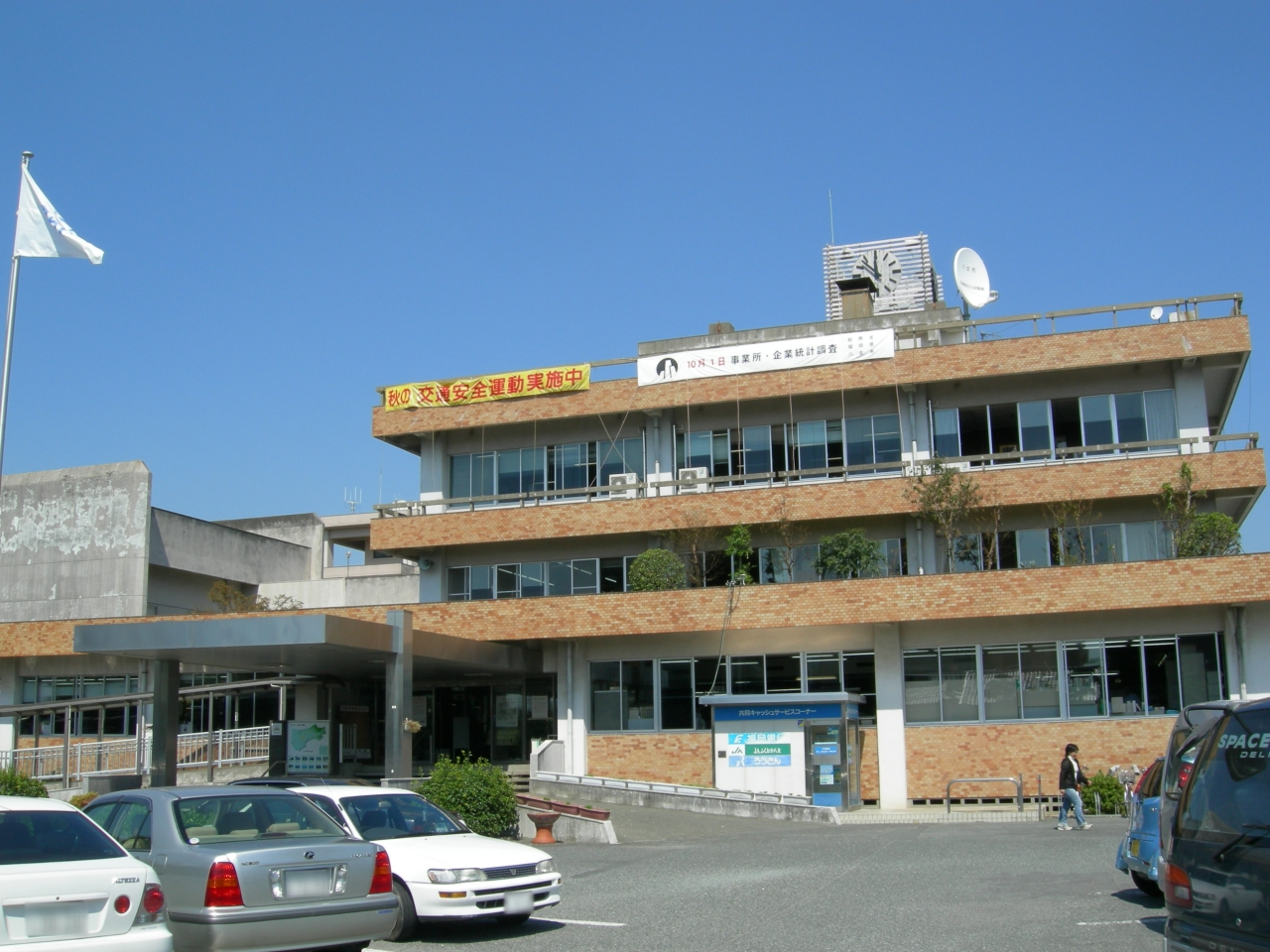 Office in Yame, Fukuoka, Japan